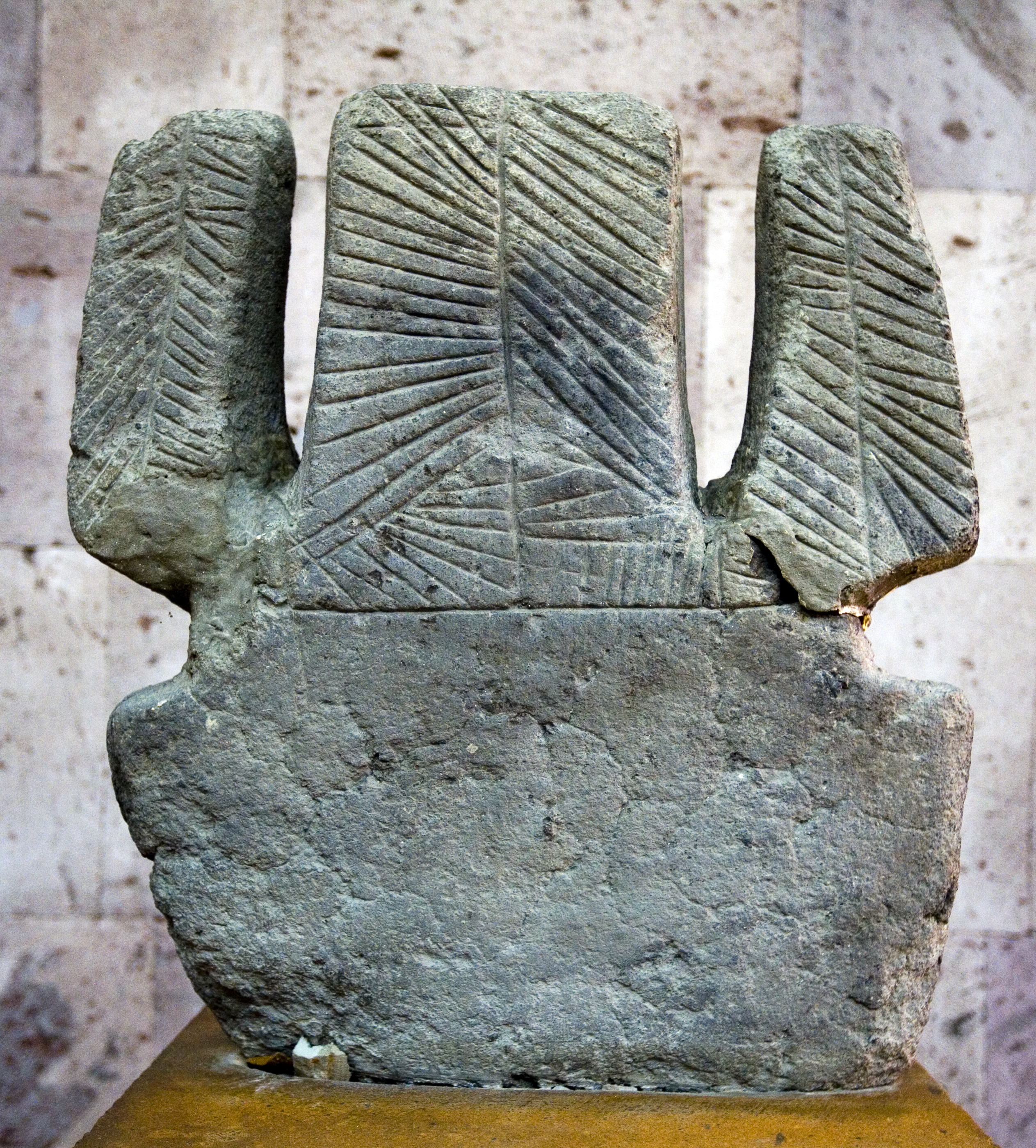 Preurartian god from Karmir Blur. Teishebaini Castle, Armenia.